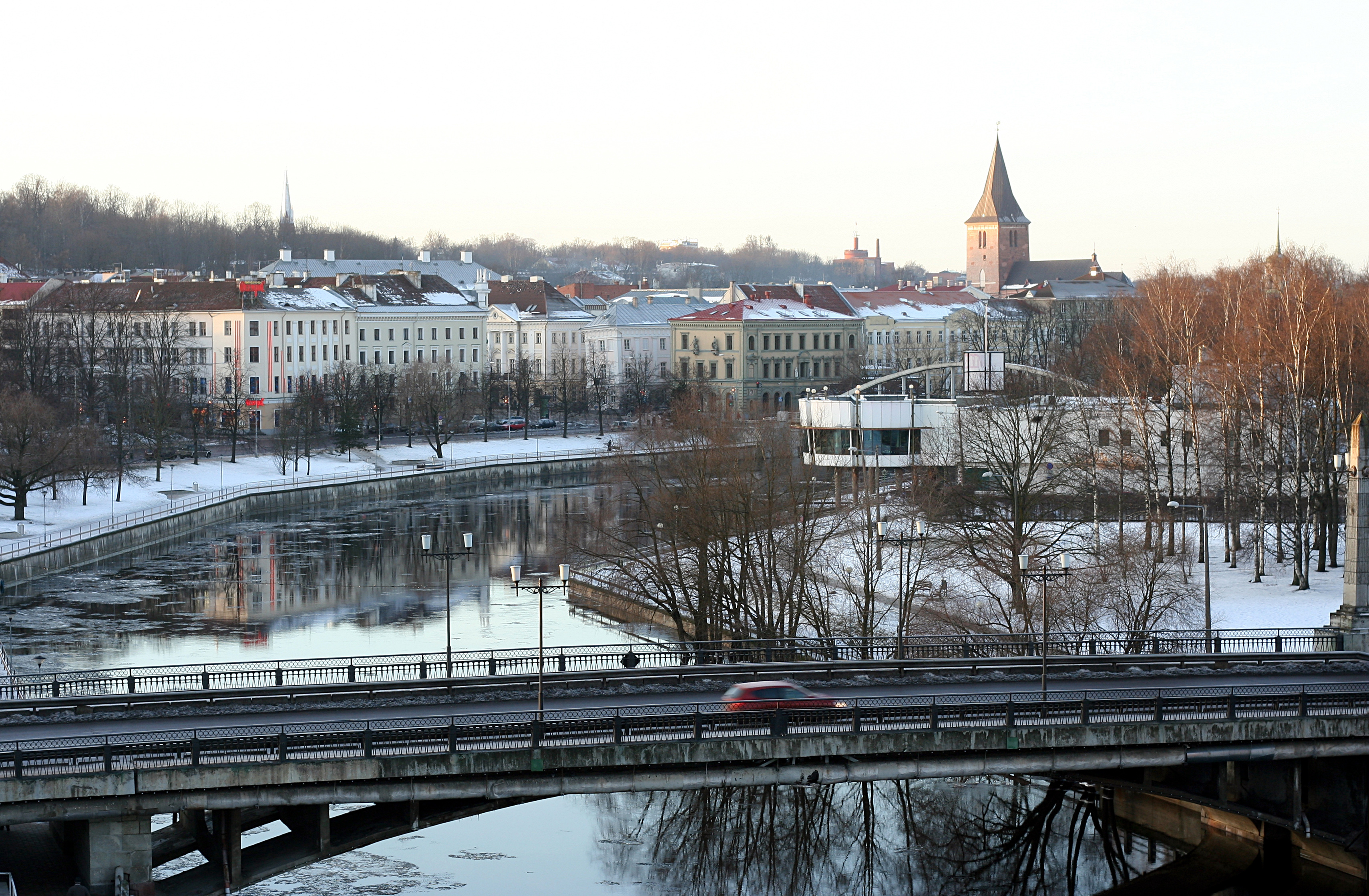 Emajõgi in Tartu.